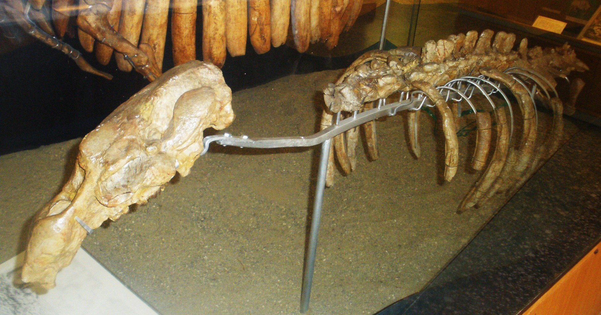 Fossil of Prototherium, an extinct mammal. Took the picture at Museo di Paleontologia di Firenze